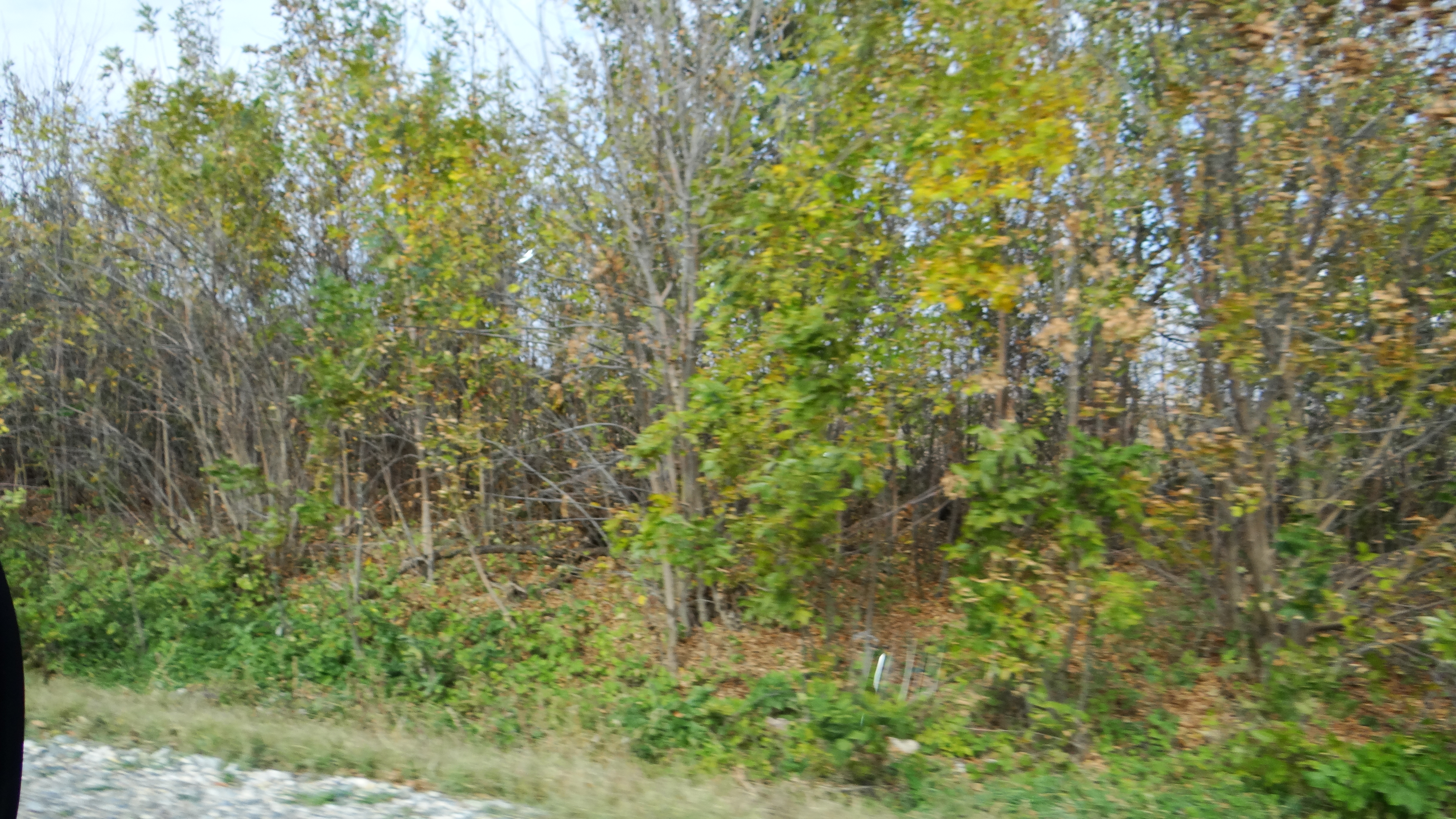 Prikubansky District, Karachay-Cherkessia, Russia